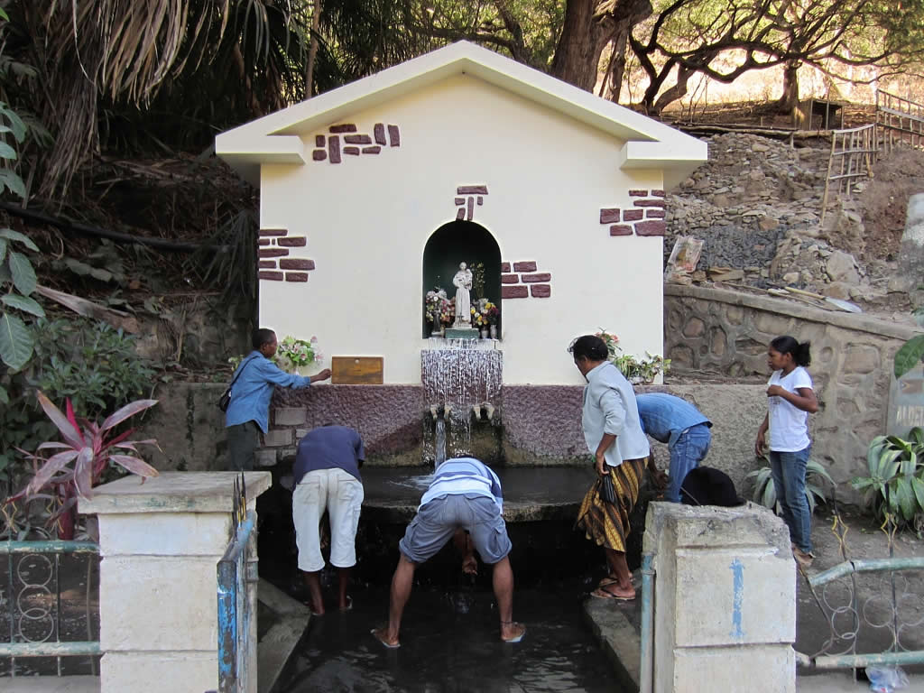 Bus passengers refreshing themselves at a roadside spring in Behedan between Dili and Baucau